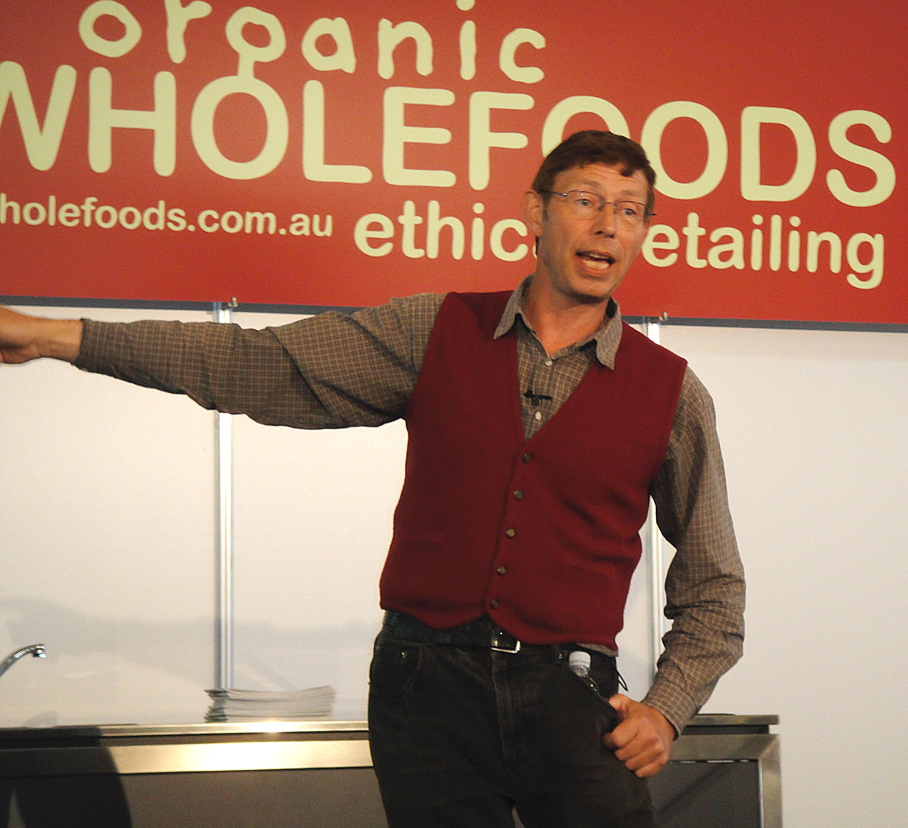 Gardener Jerry Coleby-Williams presenting a talk at Organic Expo in Melbourne July 2009